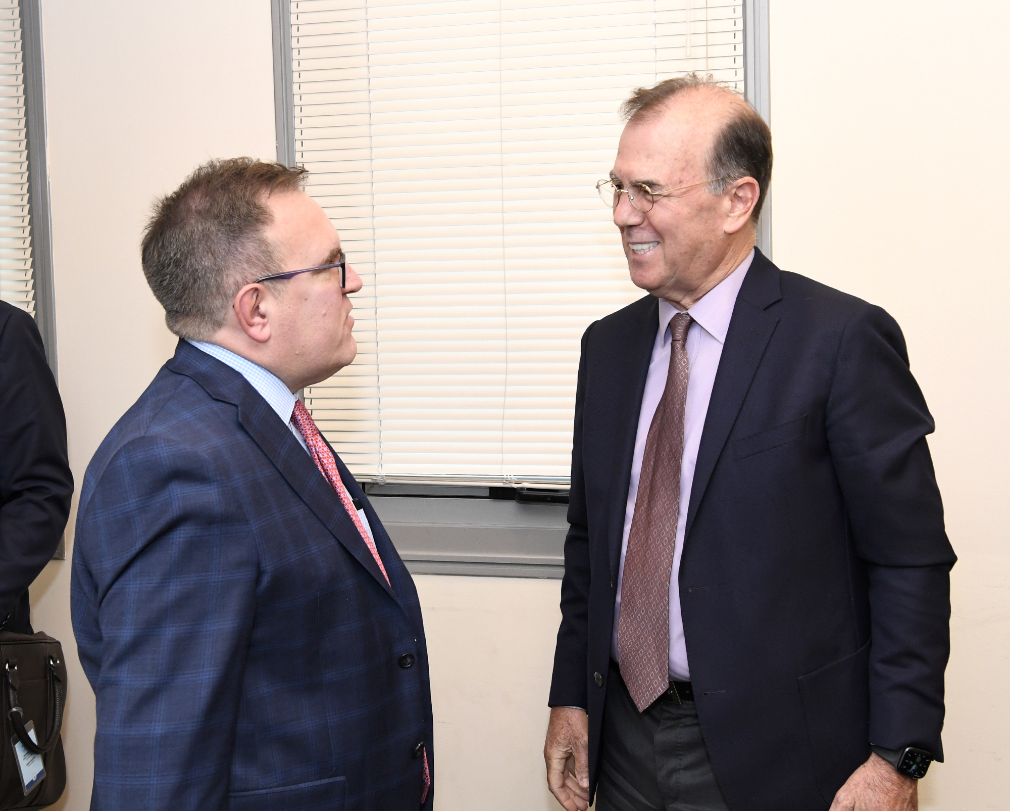 EPA ADMINISTRATOR WHEELER Visit to Israel Nov. 17-19, 2019 meeting with Dr. Appelbaum